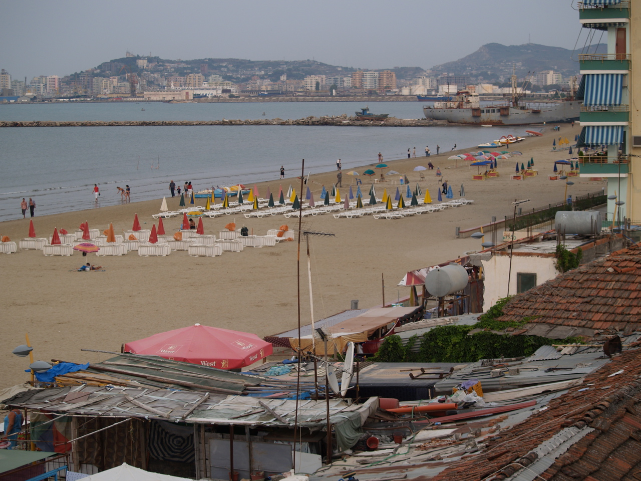 Beach of Durrës, Albania, with parts of the port and the city centerin the background